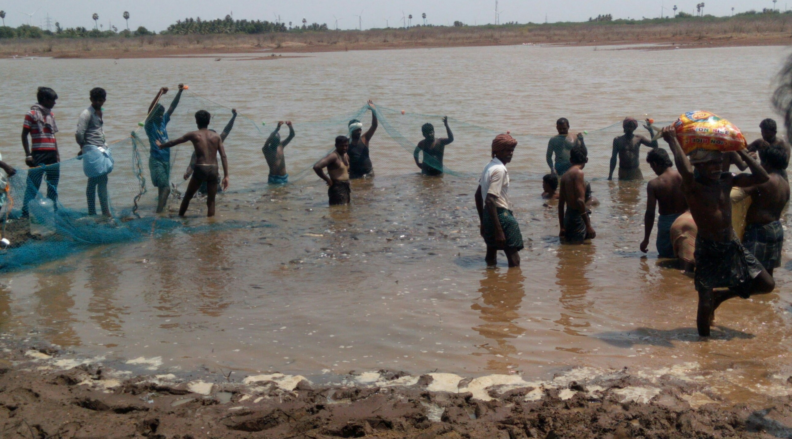 fishing